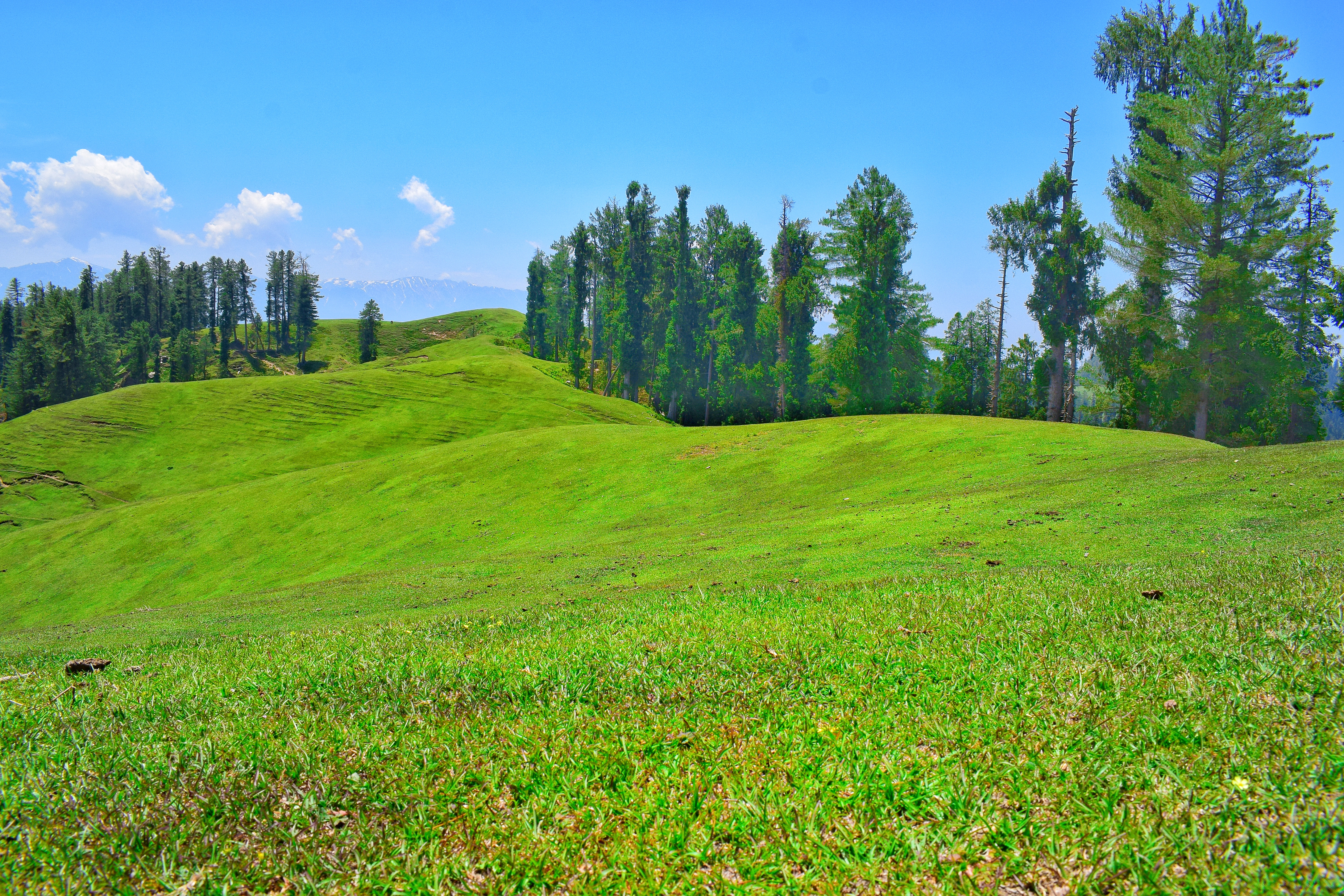 You can use this photo by giving proper credits to the photo owner Raja Irfan and The Chenab Times.